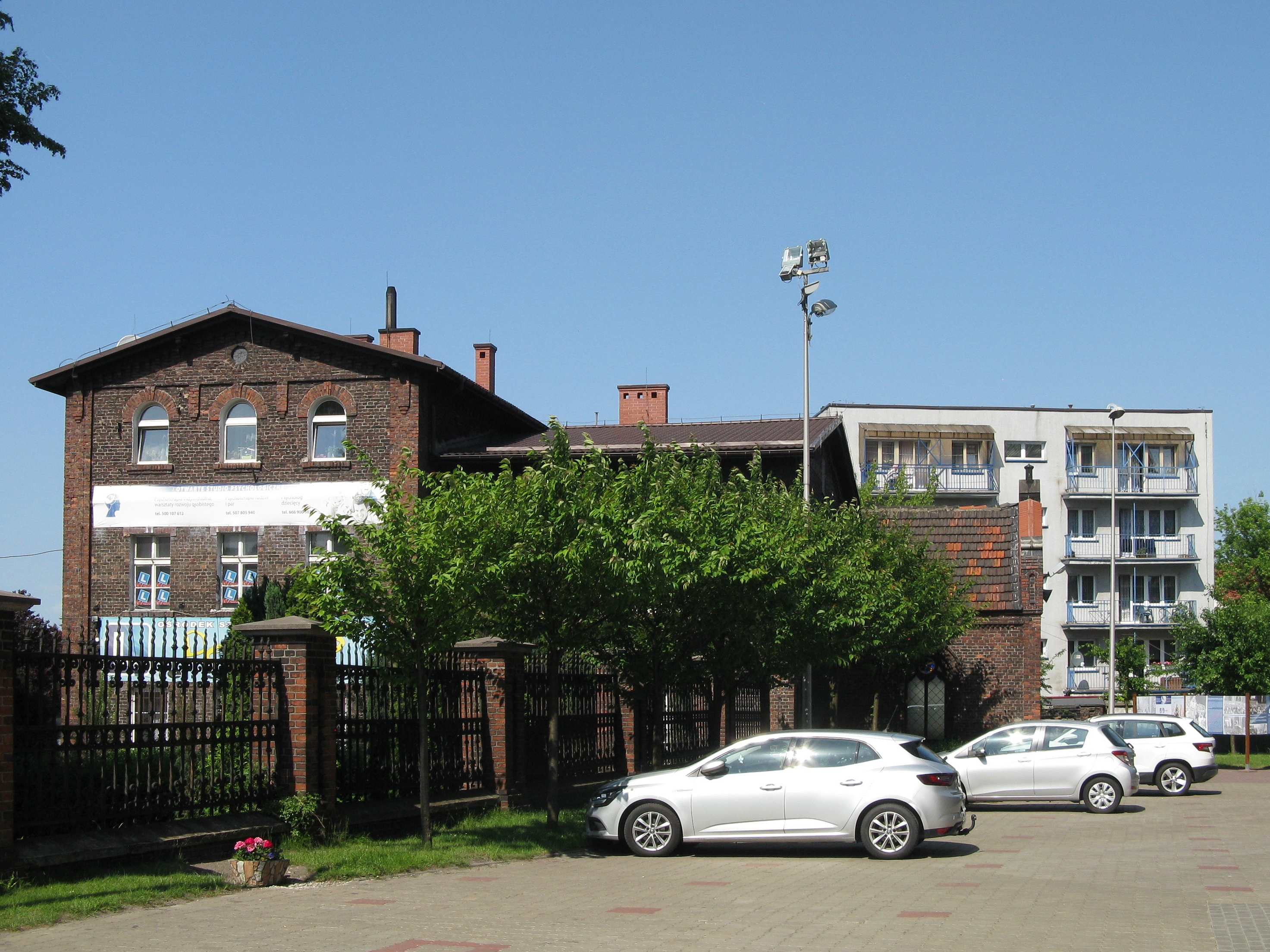 The Porcjunkula chapel near the church of St. Mary in Dąbrowa Górnicza, Poland.